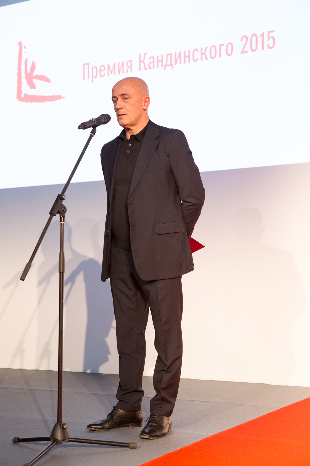 Shalva Breus/ Kandinsky Prize